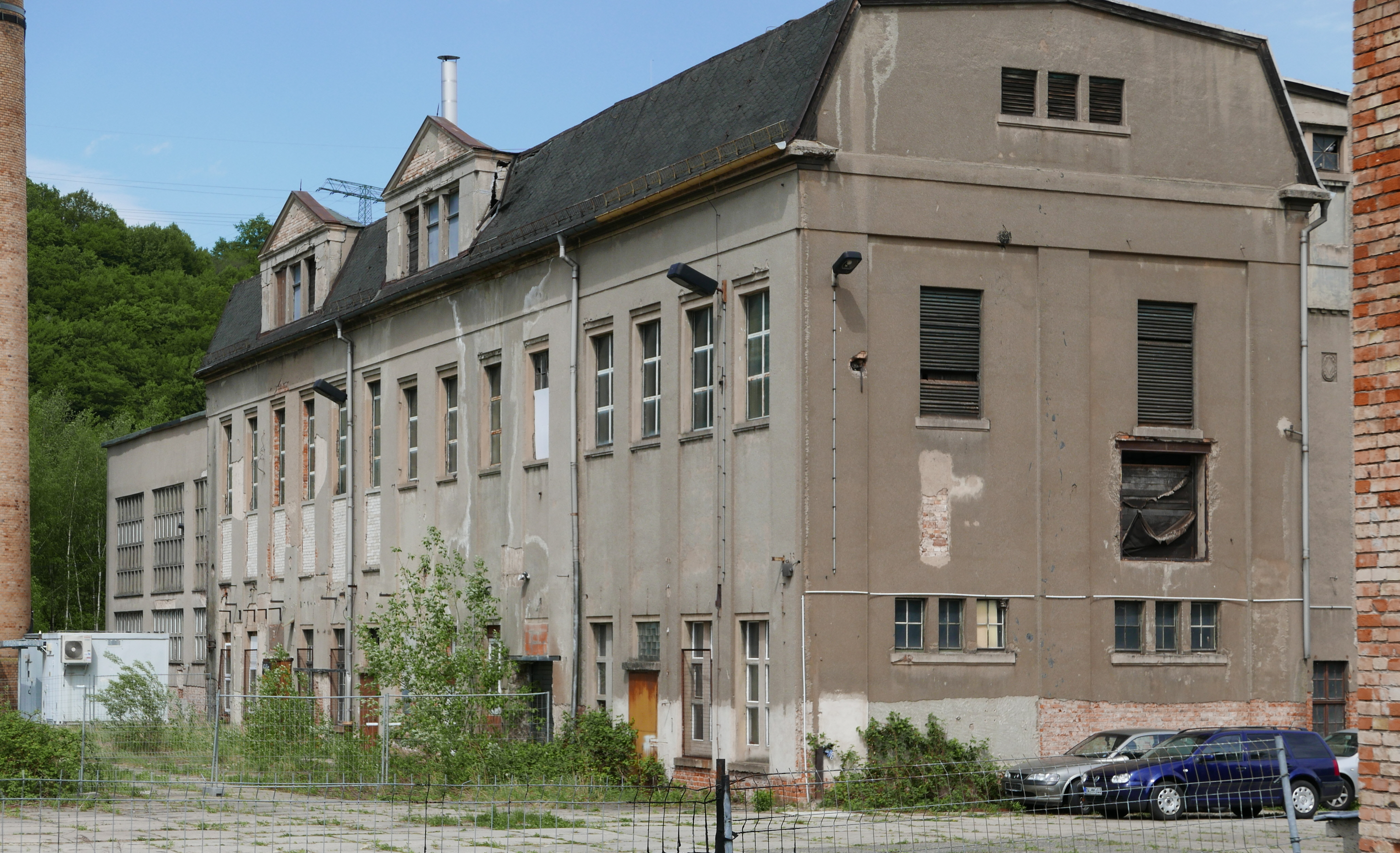 German Voltol plant 1921 - 1946.